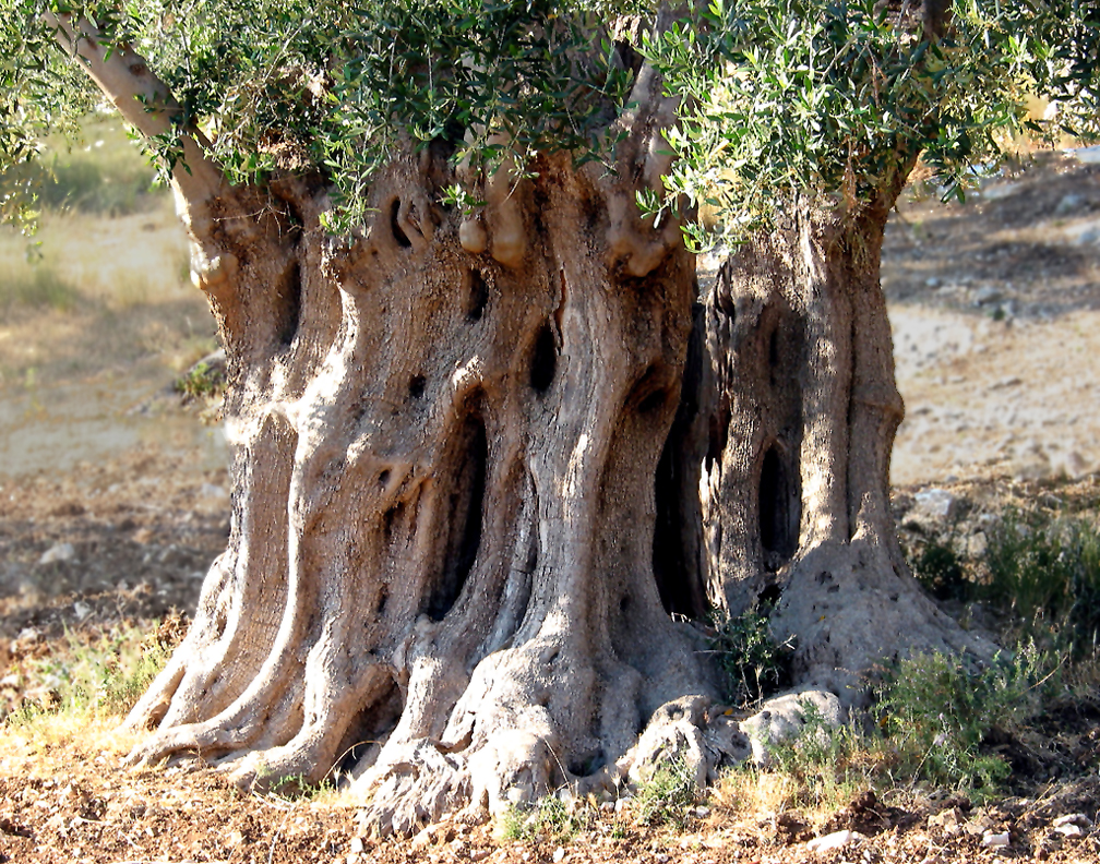 old olive three